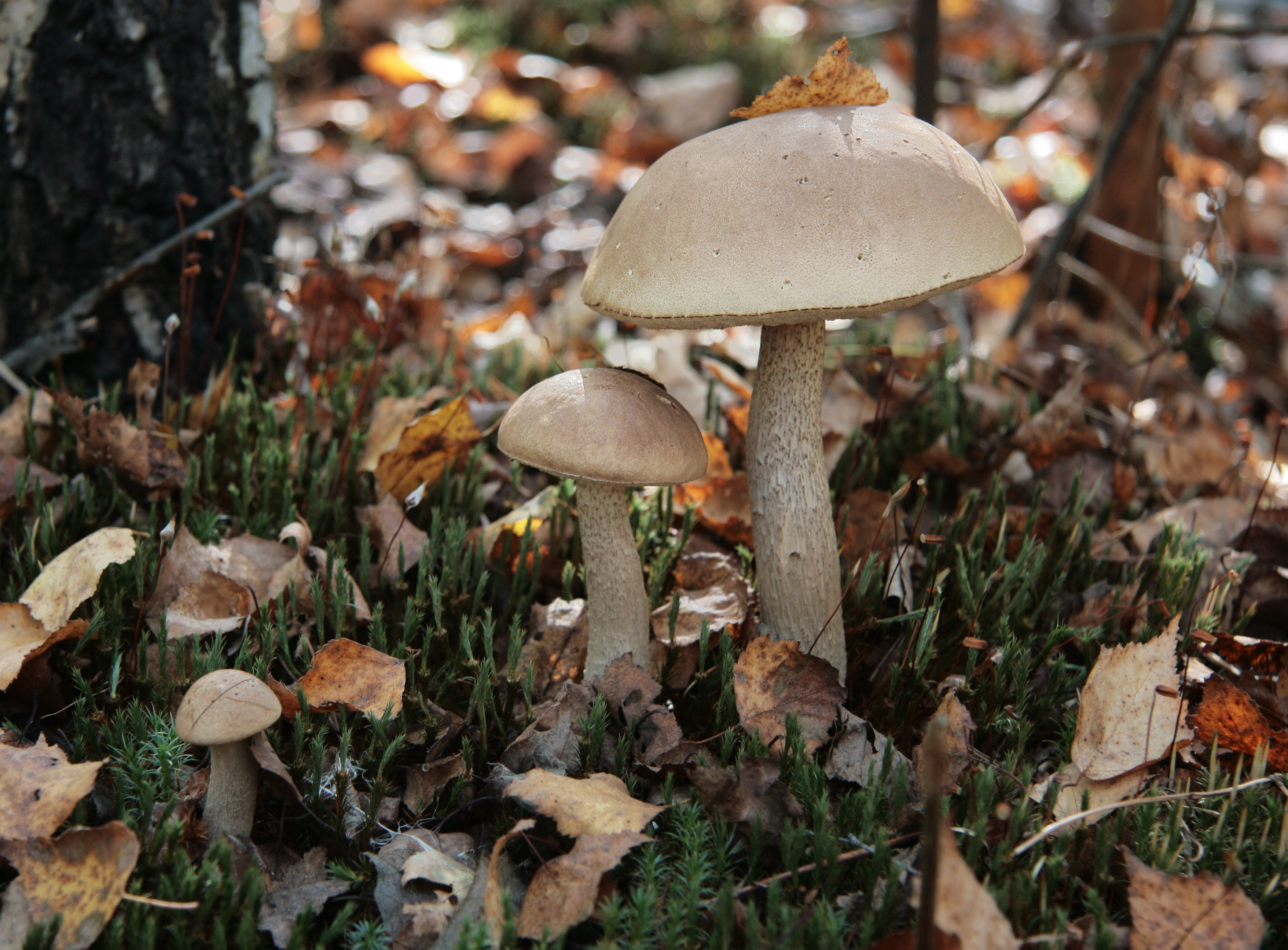 Brown cap boletus - Leccinum holopus. Village Puslichevo, Bolsheselsky District of Yaroslavl Oblast, Russia.